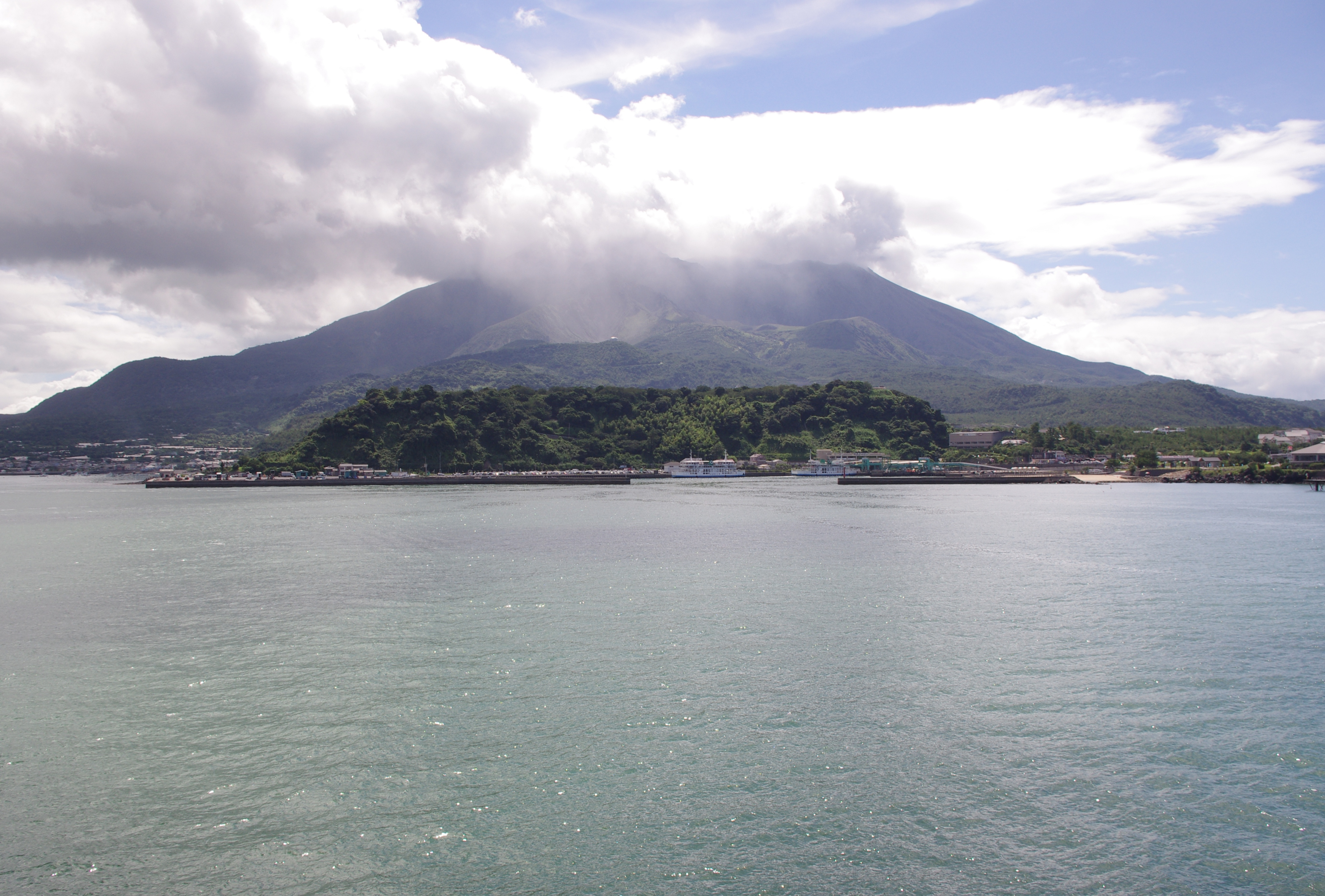 Volcano Sakurajima, Kyushu-Kagoshima, Japan